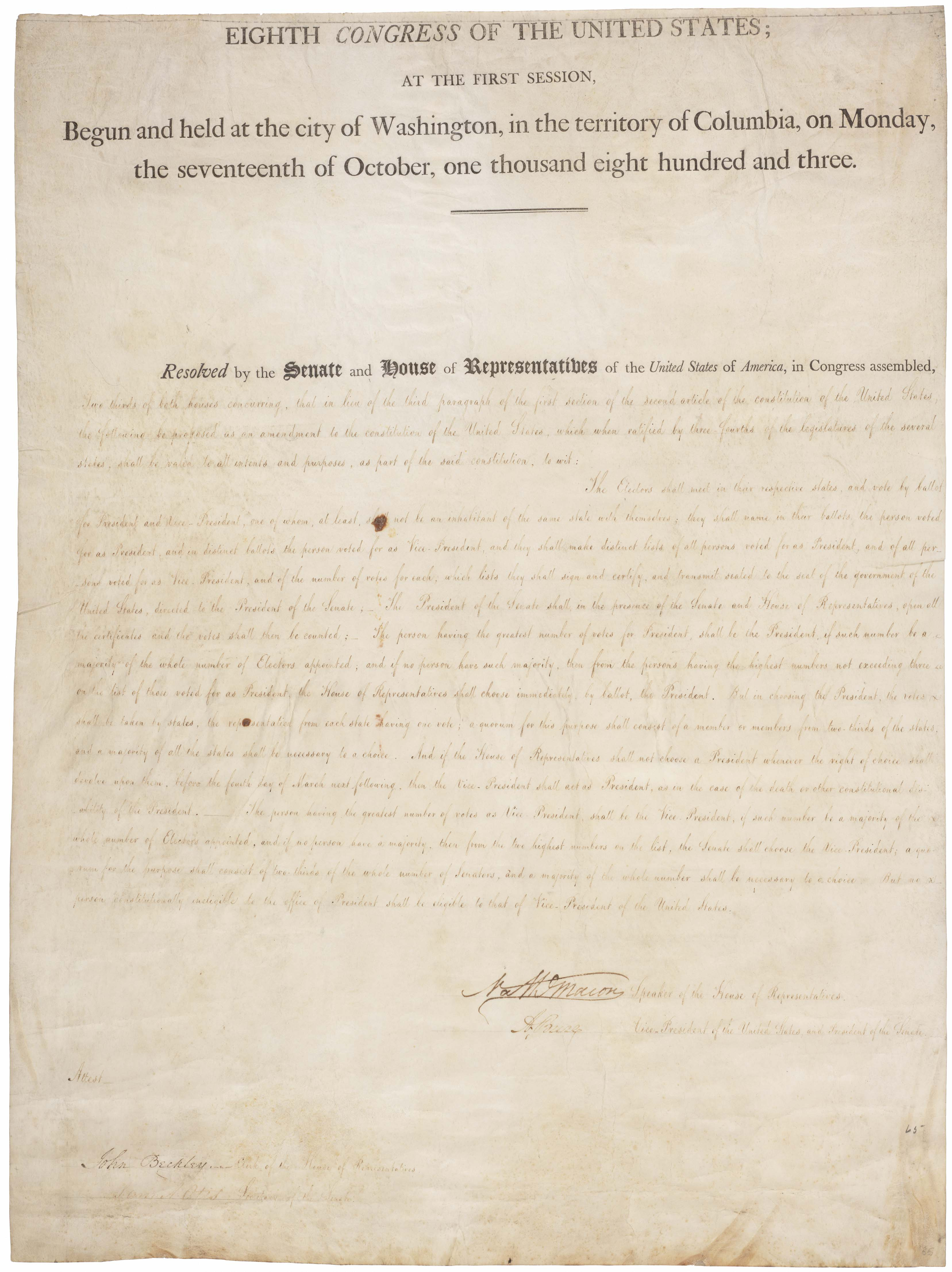 12th Amendment of the Constitution of the United States.